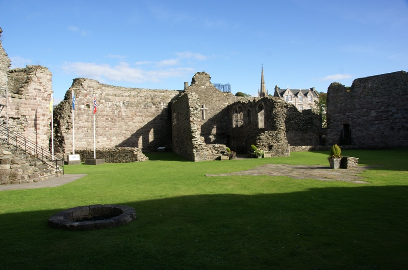 Rothesay Castle, Rothesay, Bute, Scotland. Courtyard with chapel.